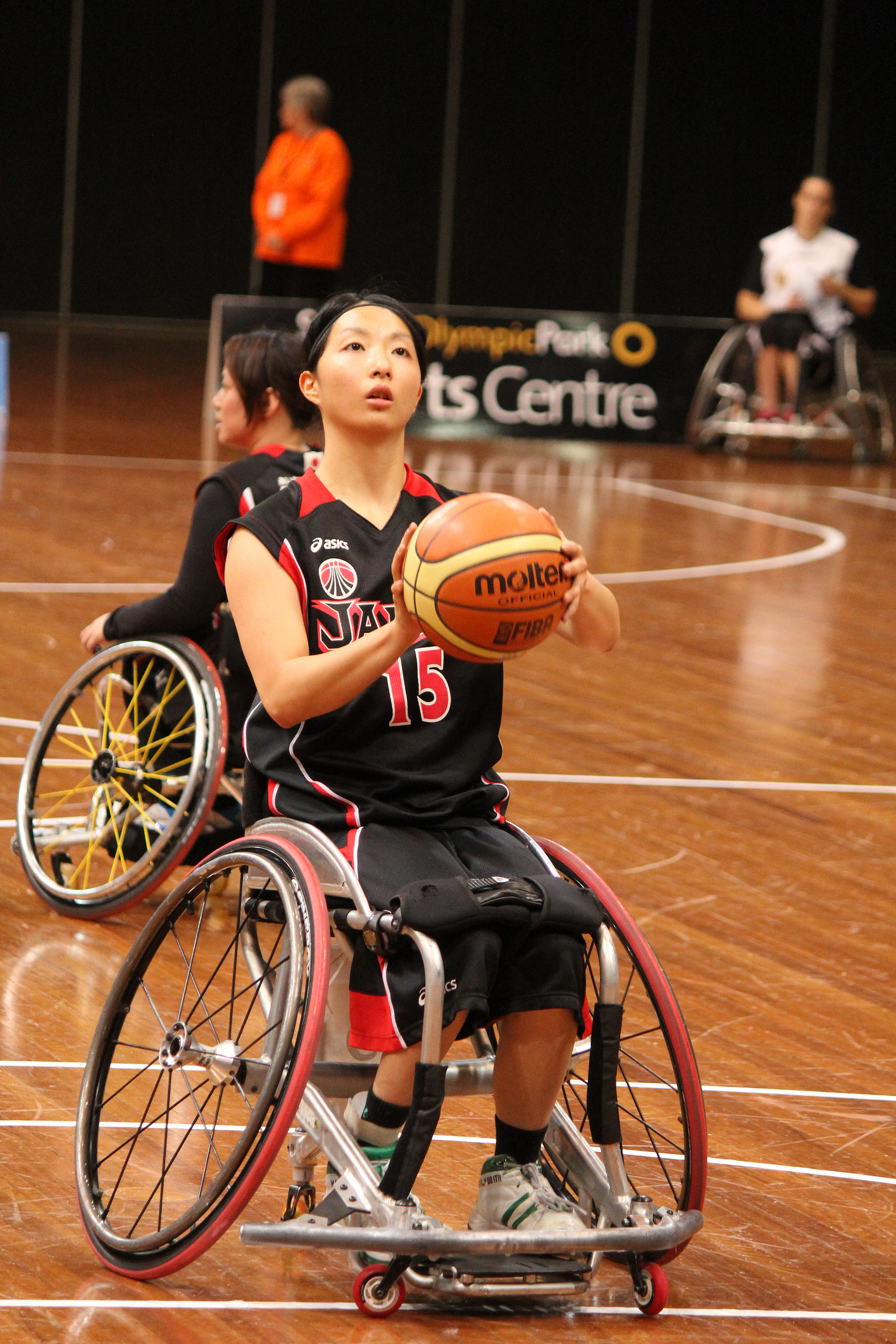 Germany vs Japan women's wheelchair basketball team at the Sports Centre.